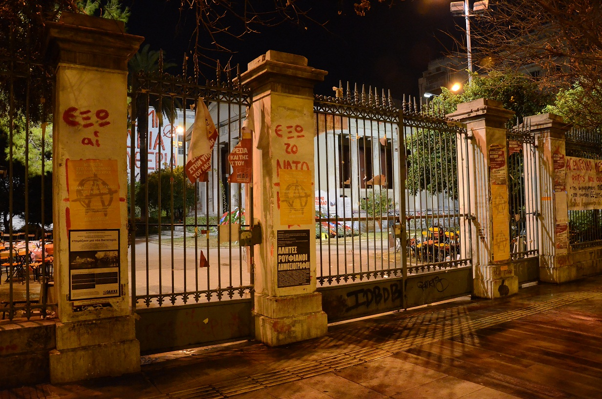 Central Gate of the National Technical University of Athens